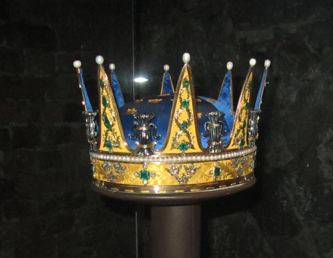 Coronet of a Prince of Sweden (made for Prince Charles, Duke of Sudermania, in the early 1770s) as shown to public on National DayPlace: Royal Treasury, Stockholm Palace, Sweden